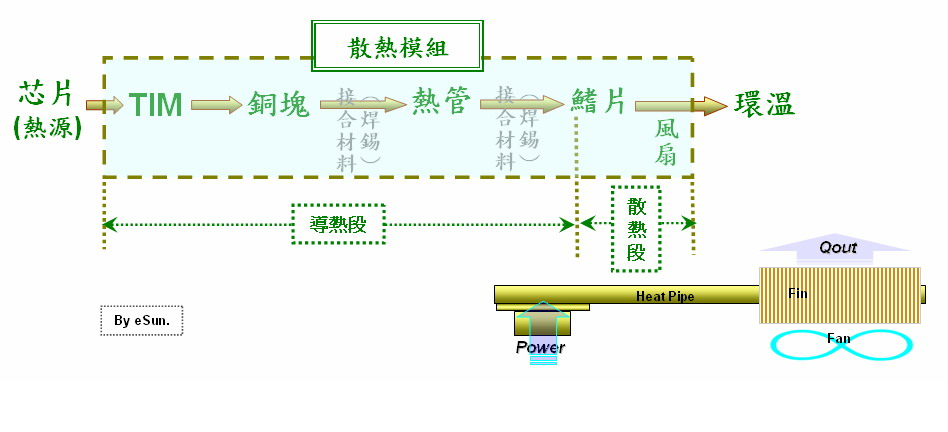 Heat Flow in a Thermal Module.